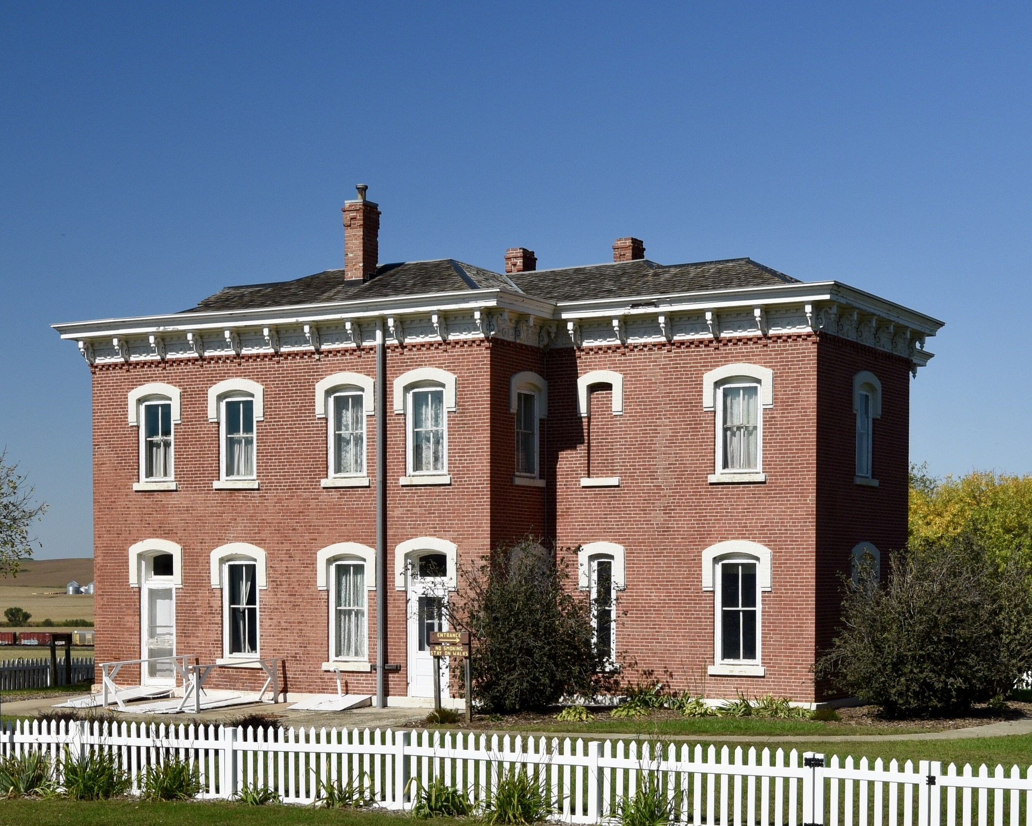 Exterior of the Simon E. Dow House, located along Prince Street in southern Dow City, Iowa, United States. Built in 1872, the house is listed on the National Register of Historic Places.